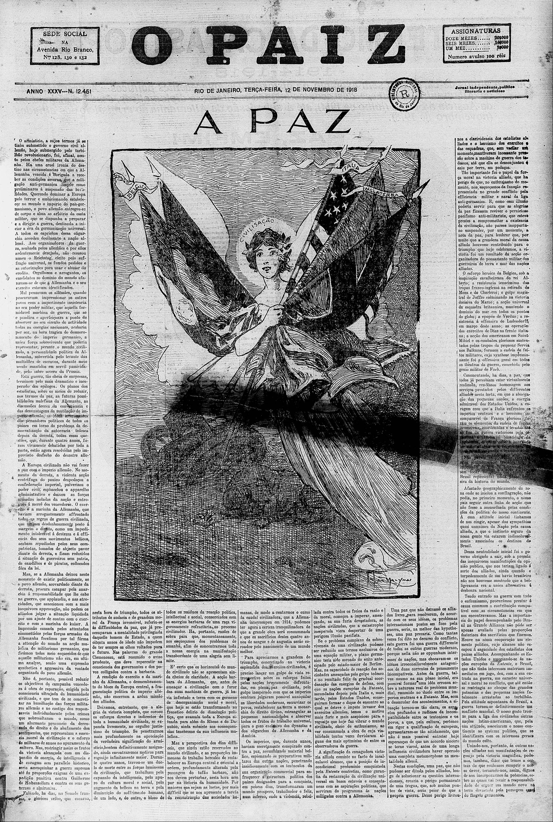 Cover of the "O Paiz" Brazilian newspaper regarding the Armistice of the First World War.